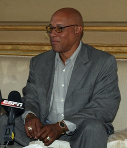 Candy Maldonado, baseball player and TV commentator.